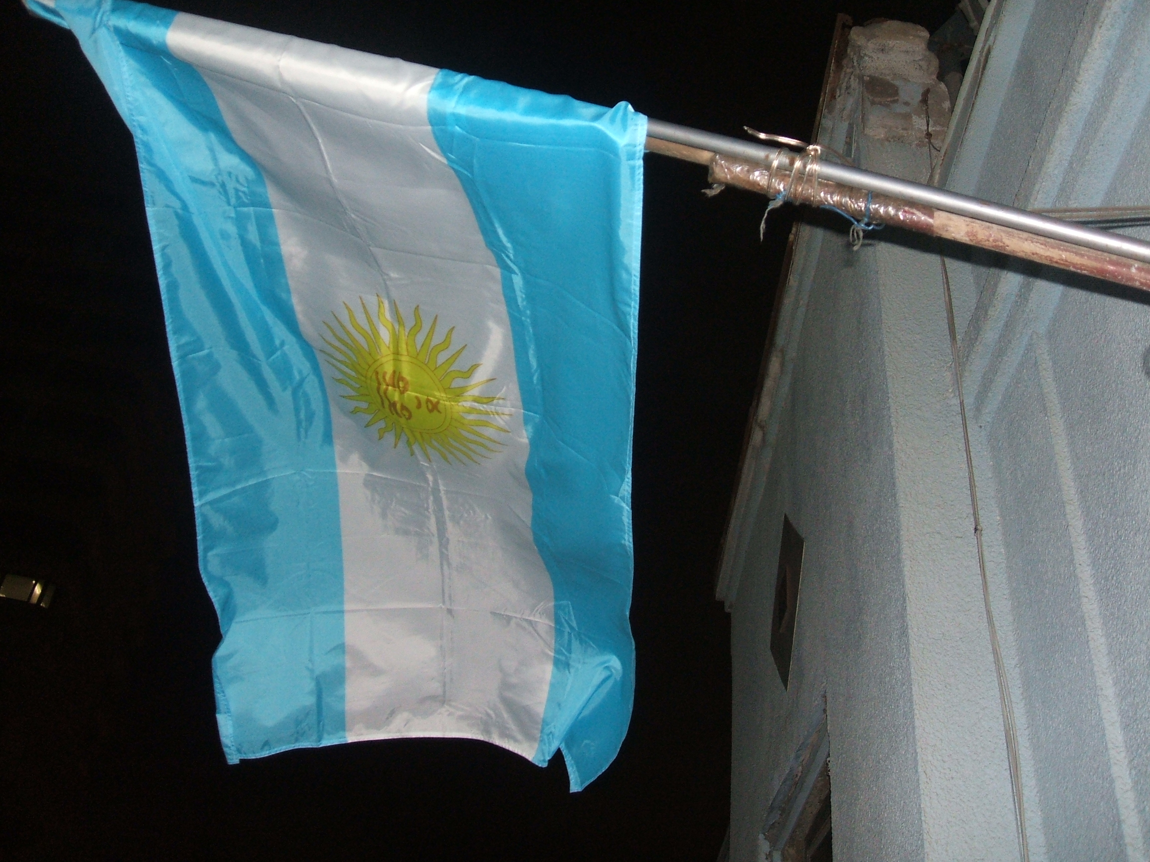 Cities in Israel - Photograph of flag of Argentina during (Rugby?) World Cup 2007